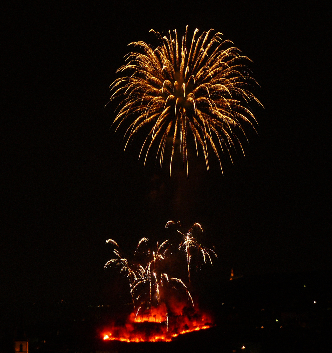 Fireworks at Castle Klopp, situated in the village of Bingen on the Middle Rhine/Germany